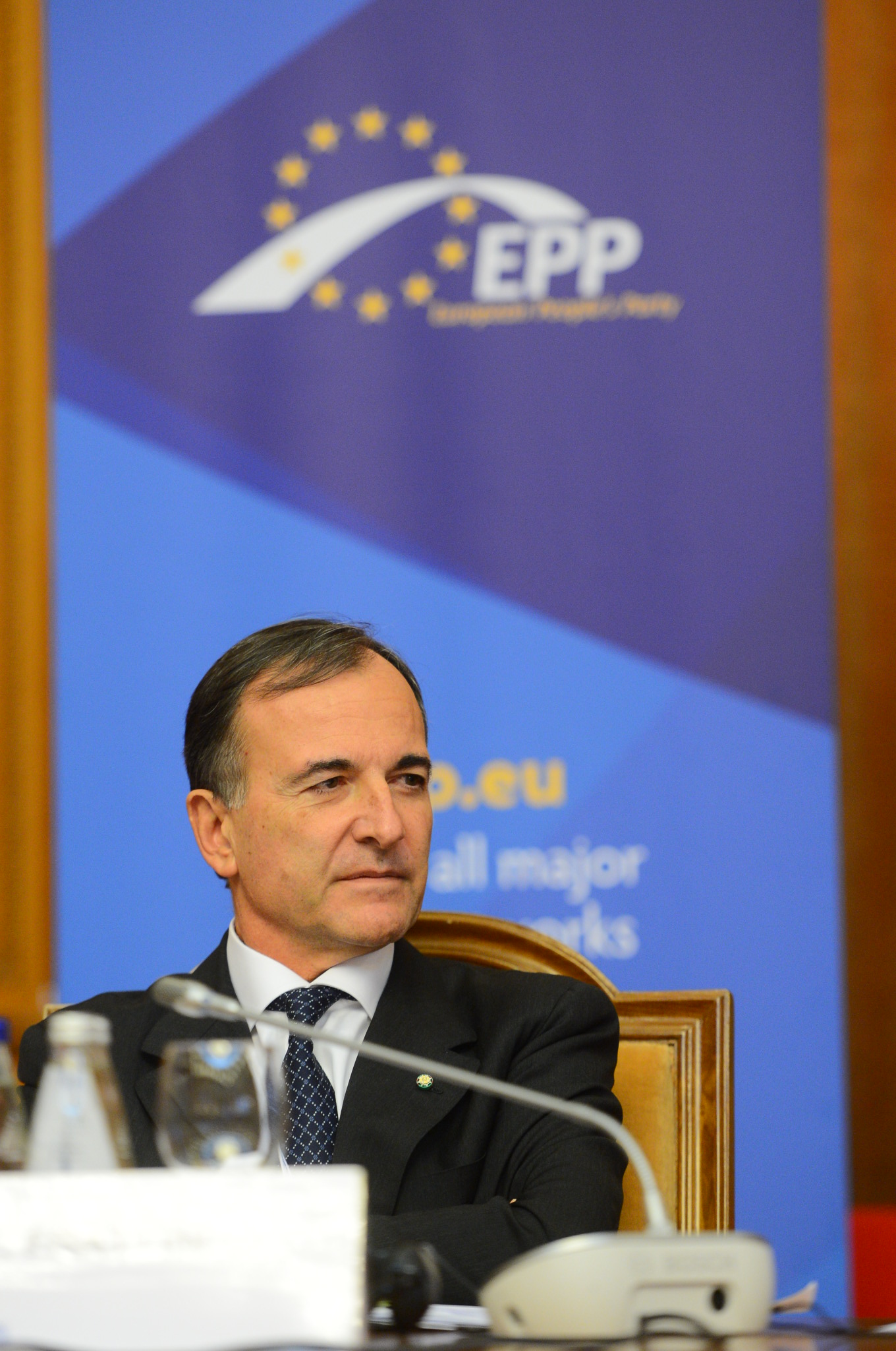 EPP_Congress_5552